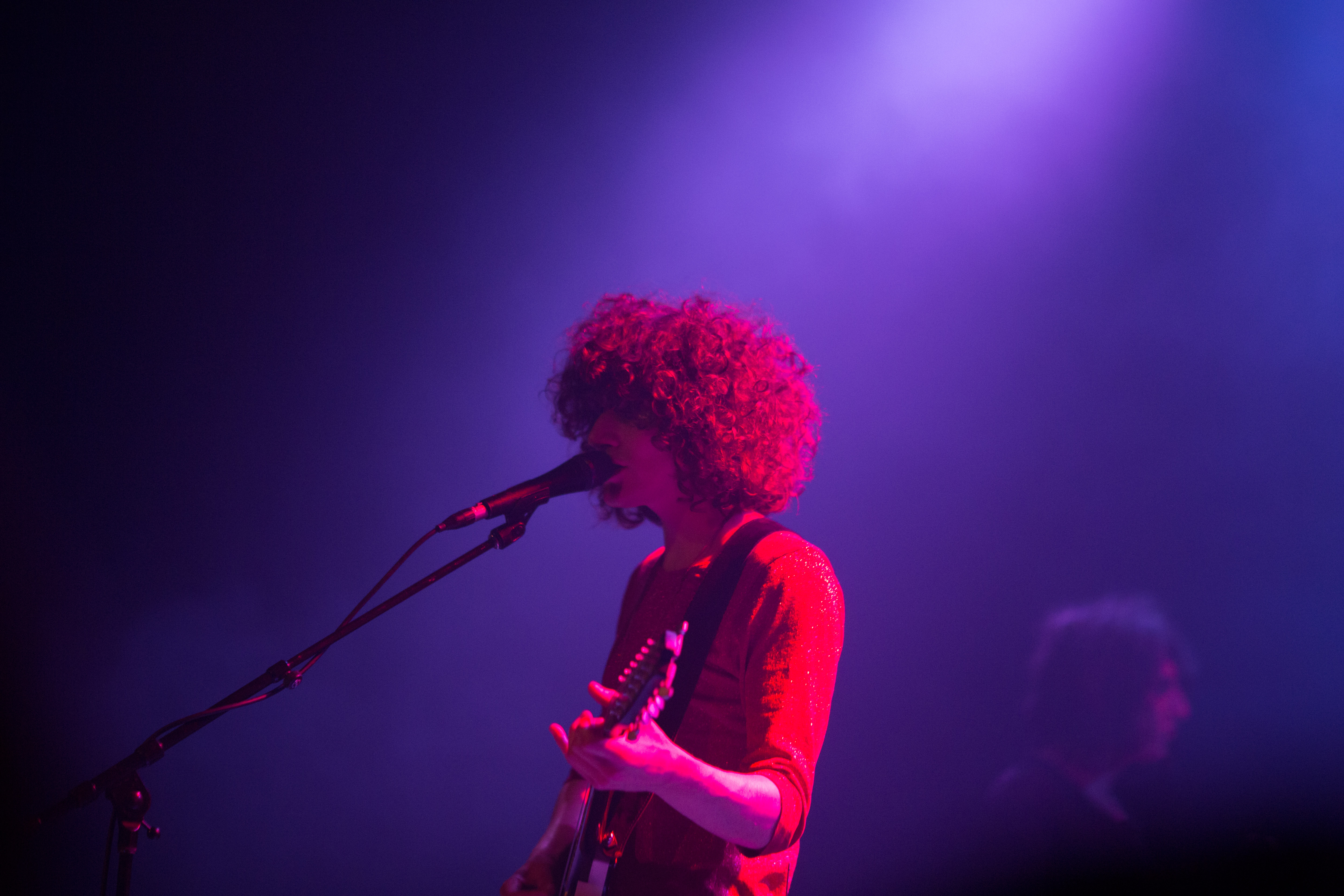 Temples @ Metro - 9th May 2014